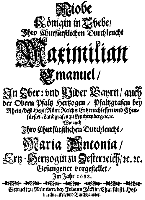 Agostino Steffani - Niobe, Königin in Thebe - titlepage of the german libretto - Munich 1688